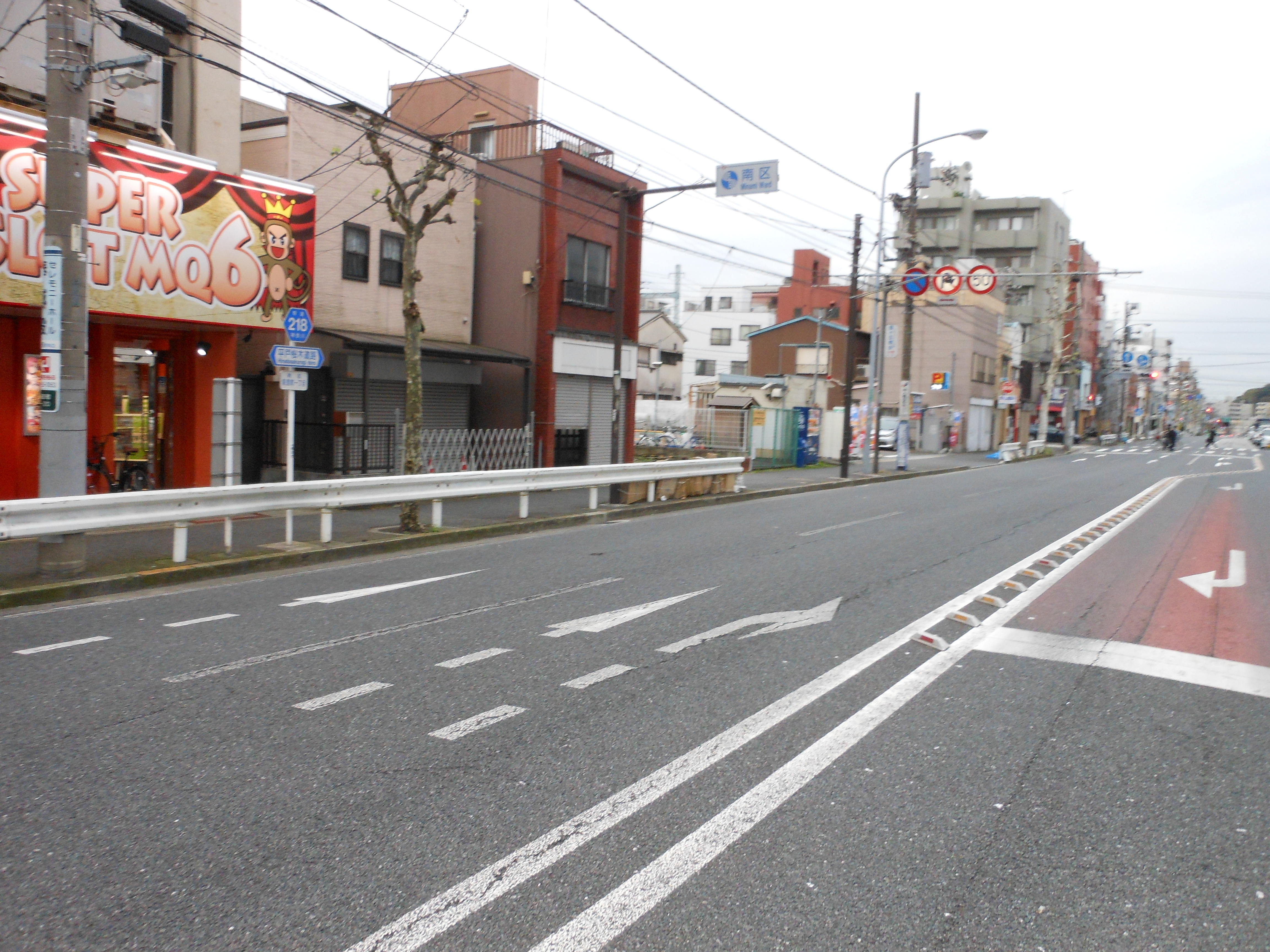 This is a landscape of Kanagawa pref. road No.218 Yayoidai-Sakuragicho Line at Hatsunecho intersection